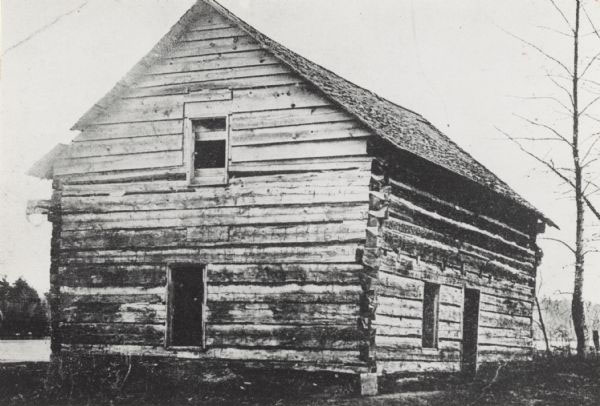 Exterior of cabin in Chippewa County, Wisconsin, where Old Abe was kept after his capture as a wild eaglet. The cabin is referred to as the "Eagle House".